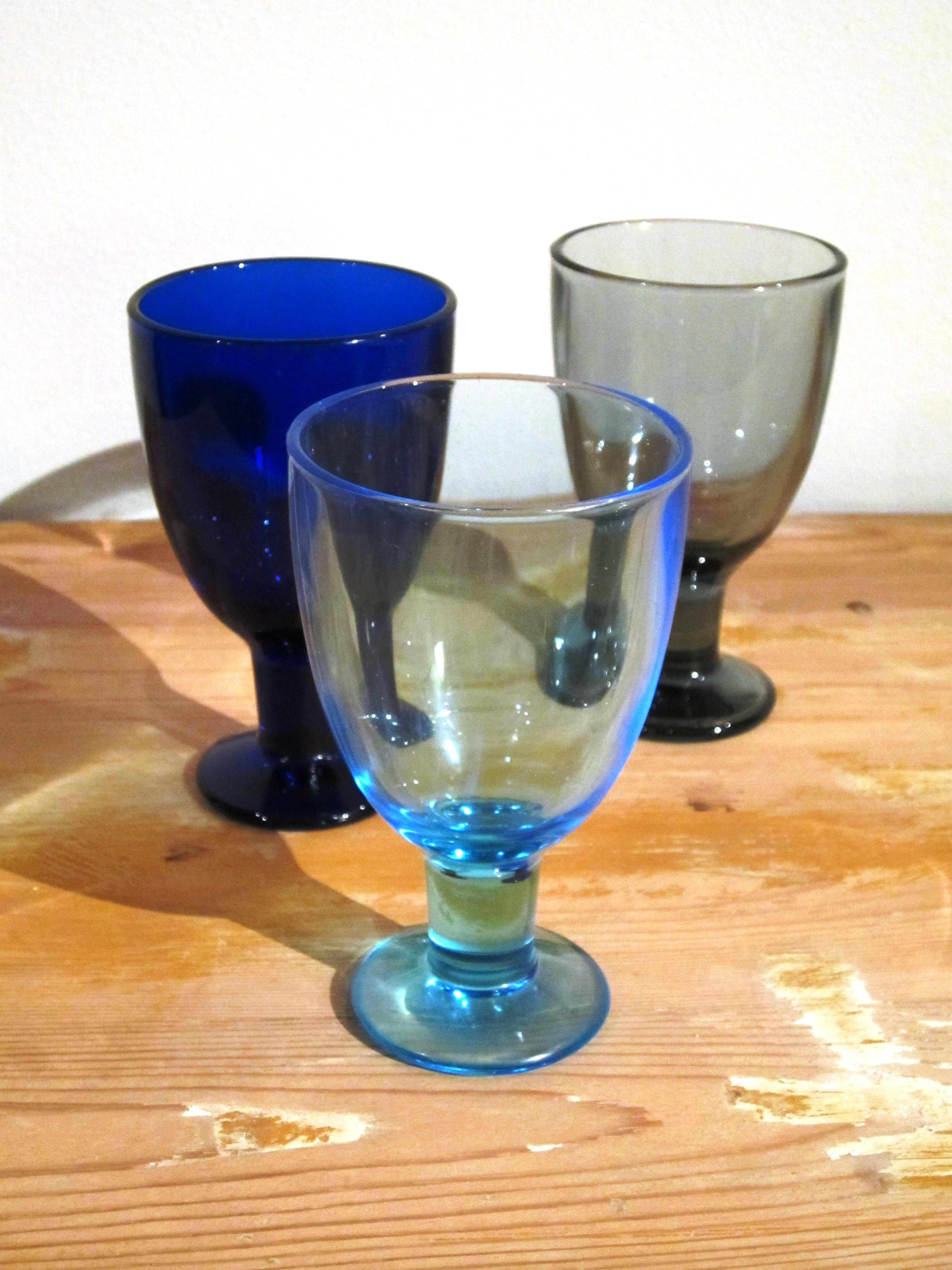 Verna glasware by designer Kerttu Nurminen